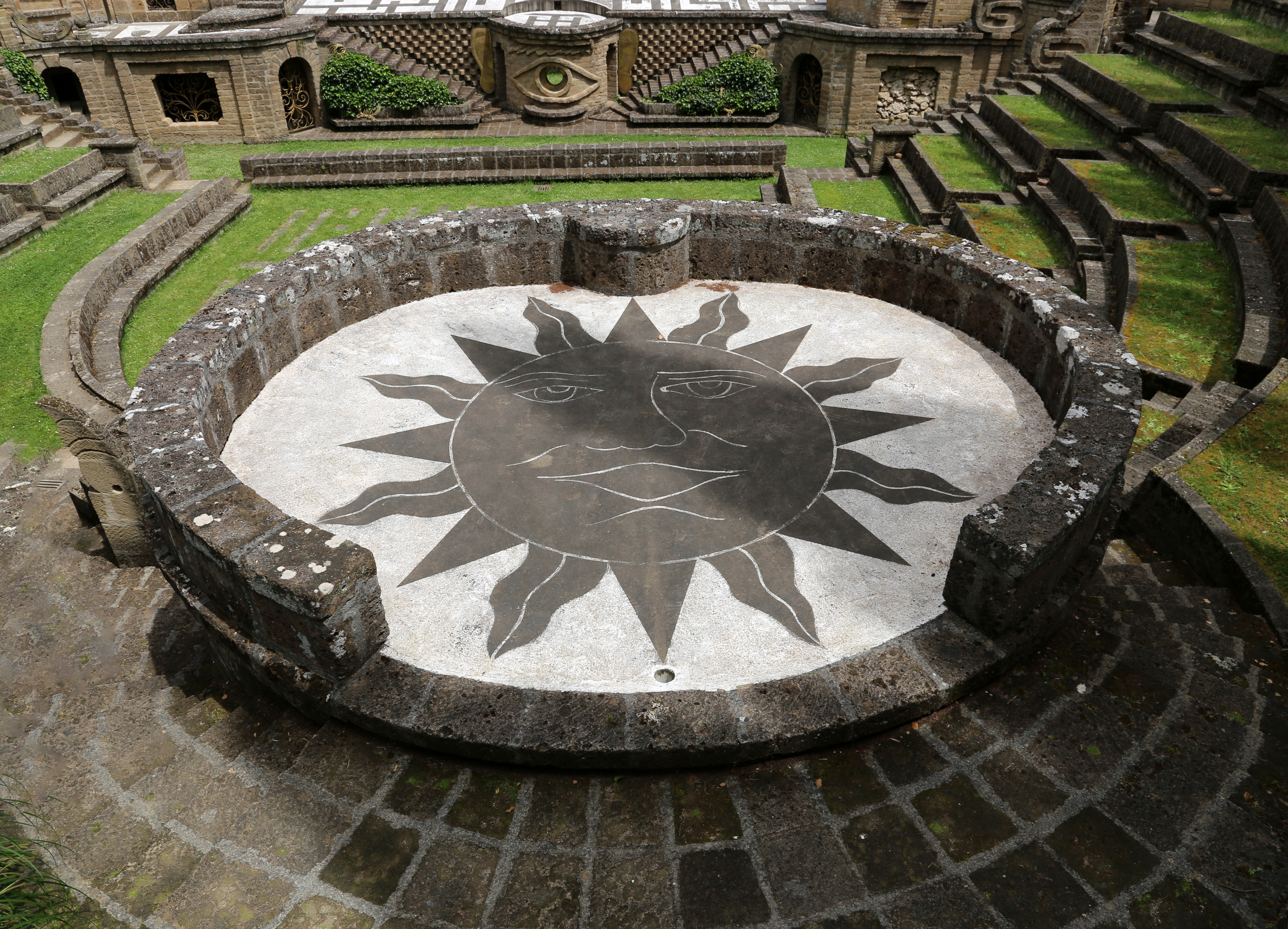 La Scarzuola